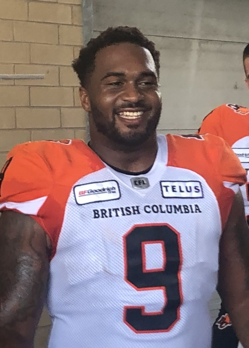 Davon Coleman, defensive lineman for the BC Lions.